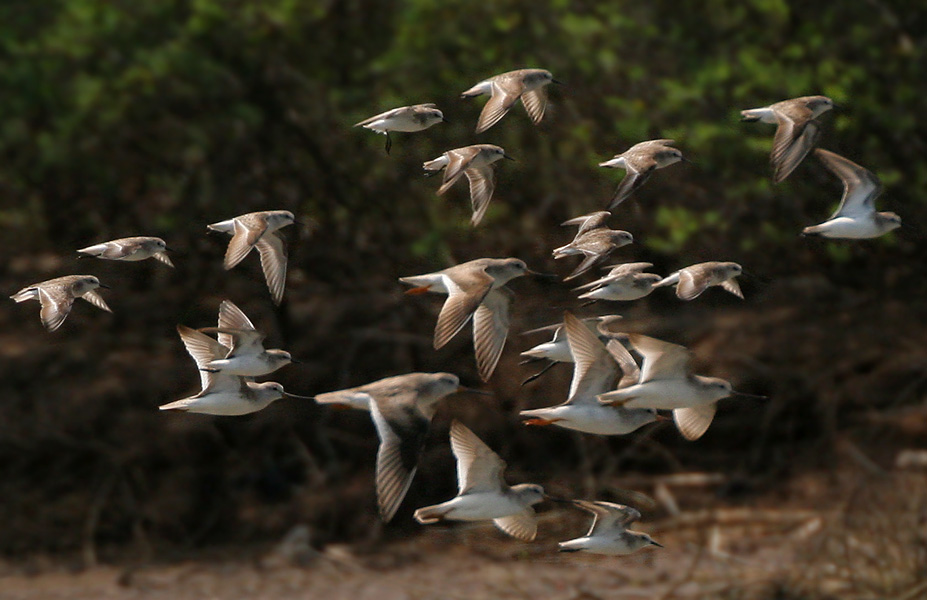 Little Stint Calidris minuta & Terek Sandpiper Xenus cinereus in Krishna Wildlife Sanctuary, Andhra Pradesh, India.